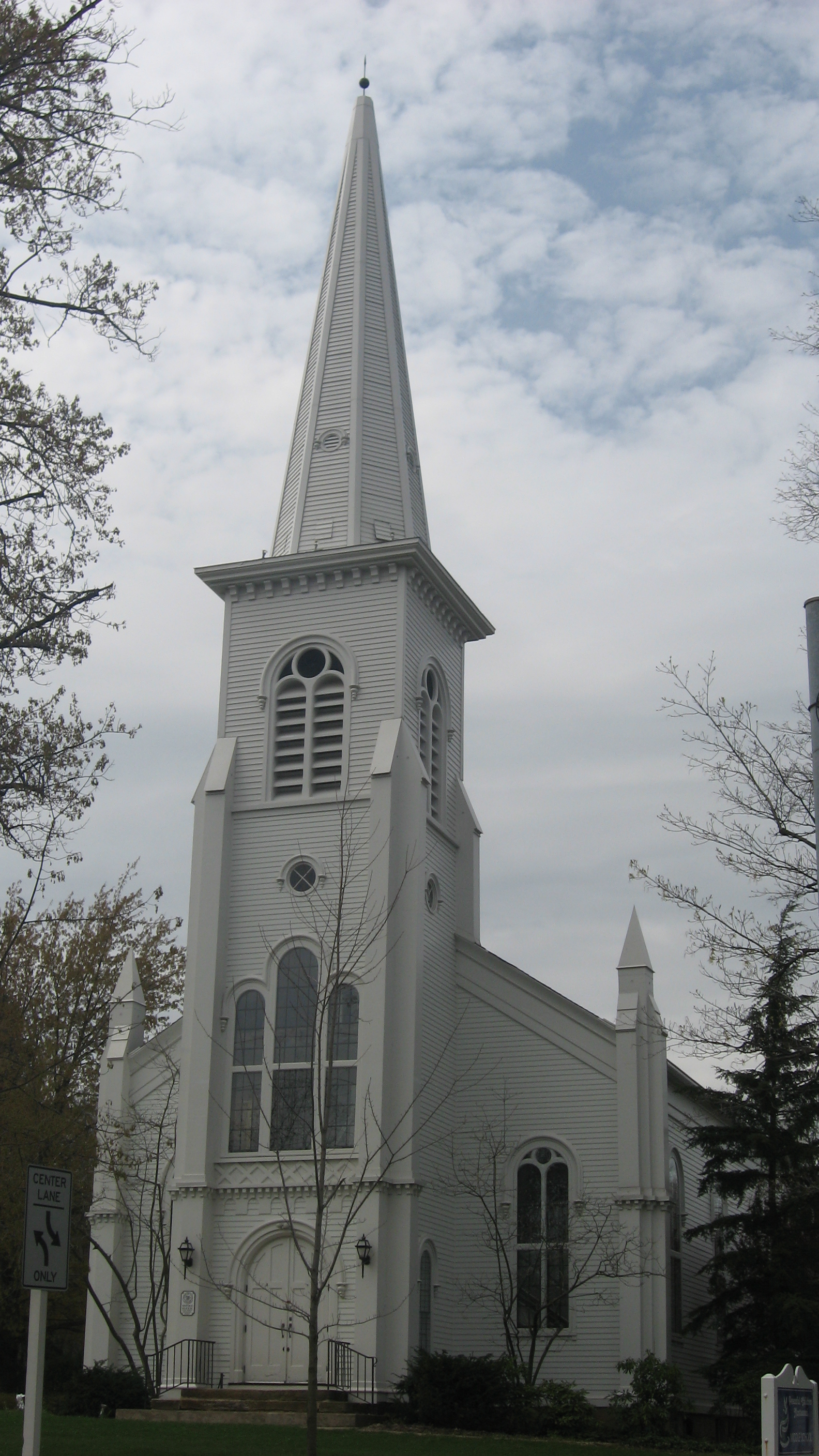 Front of Old South Church, located at 9802 Chillicothe Road (State Route 306) in Kirtland, Ohio, United States. Built in 1859, it is listed on the National Register of Historic Places.